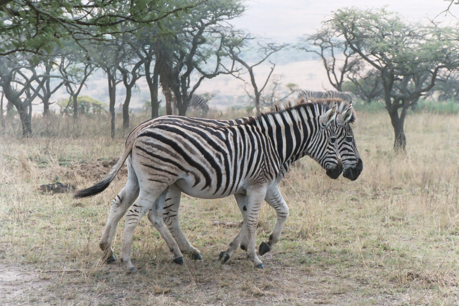 Two Zebras, South Africa, August 2003.